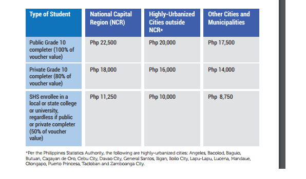 Grade 10 completer and SHS enrollee statistic